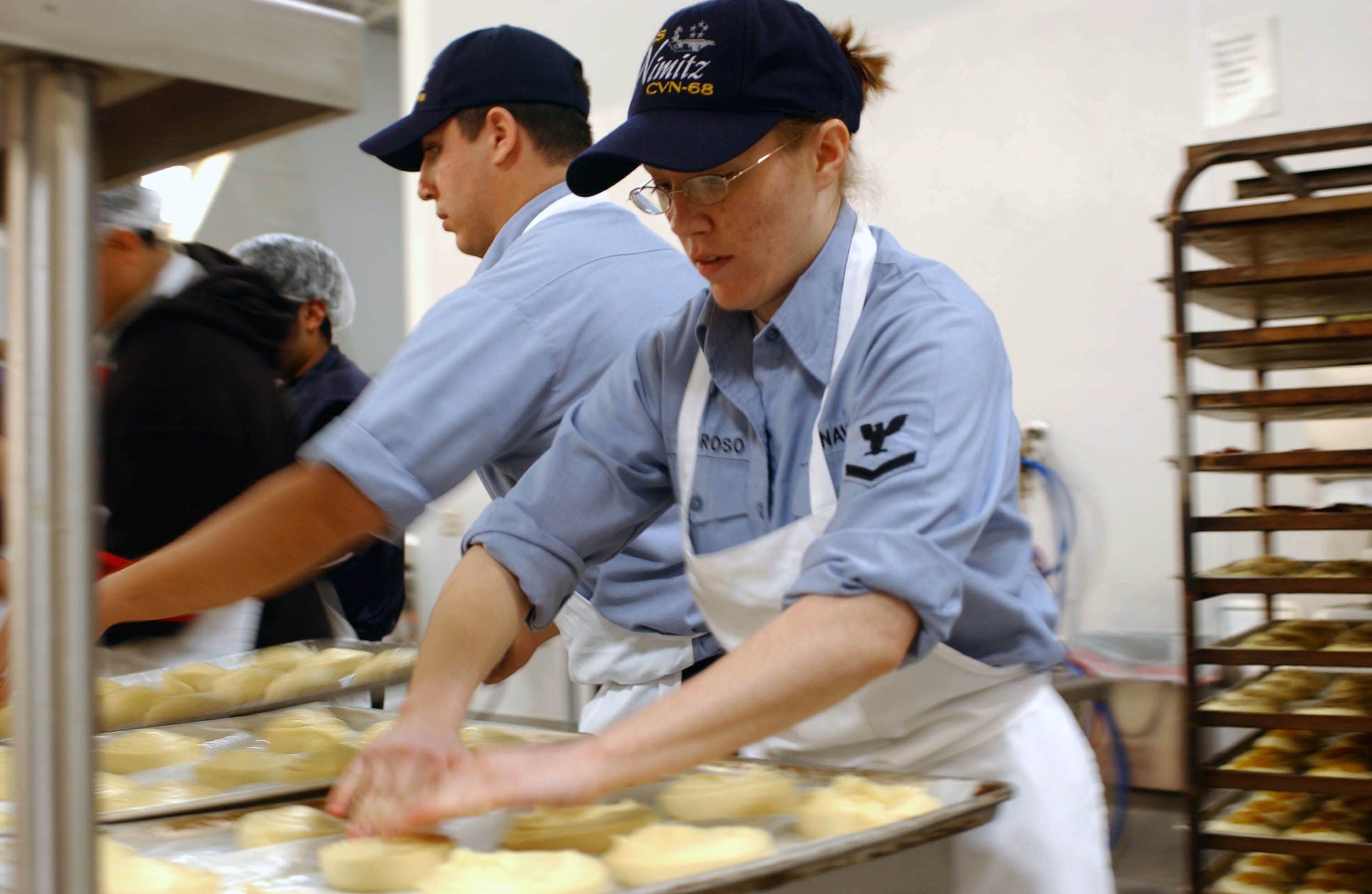 San Diego, California (Feb. 26, 2004) – Working with a local bakery, Culinary Specialist 3rd Class Nickie Amoroso, of Delta, Colo., prepares pastries for the mornings distribution order. USS Nimitz (CVN 68) Culinary Specialists are temporarily assigned to S&S Bakery of San Diego, Calif., as part of a Task Force Excel (TFE) Program. TFE is the Navy’s new education module that incorporates civilian schools and work environments, by outsourcing training normally administered by Department of Defense agencies. Nimitz is currently undergoing Planned Increment Availability (PIA) at Naval Air Station, North Island. U.S. Navy photo by Photographer's Mate 2nd Class Tiffini M. Jones. (RELEASED)